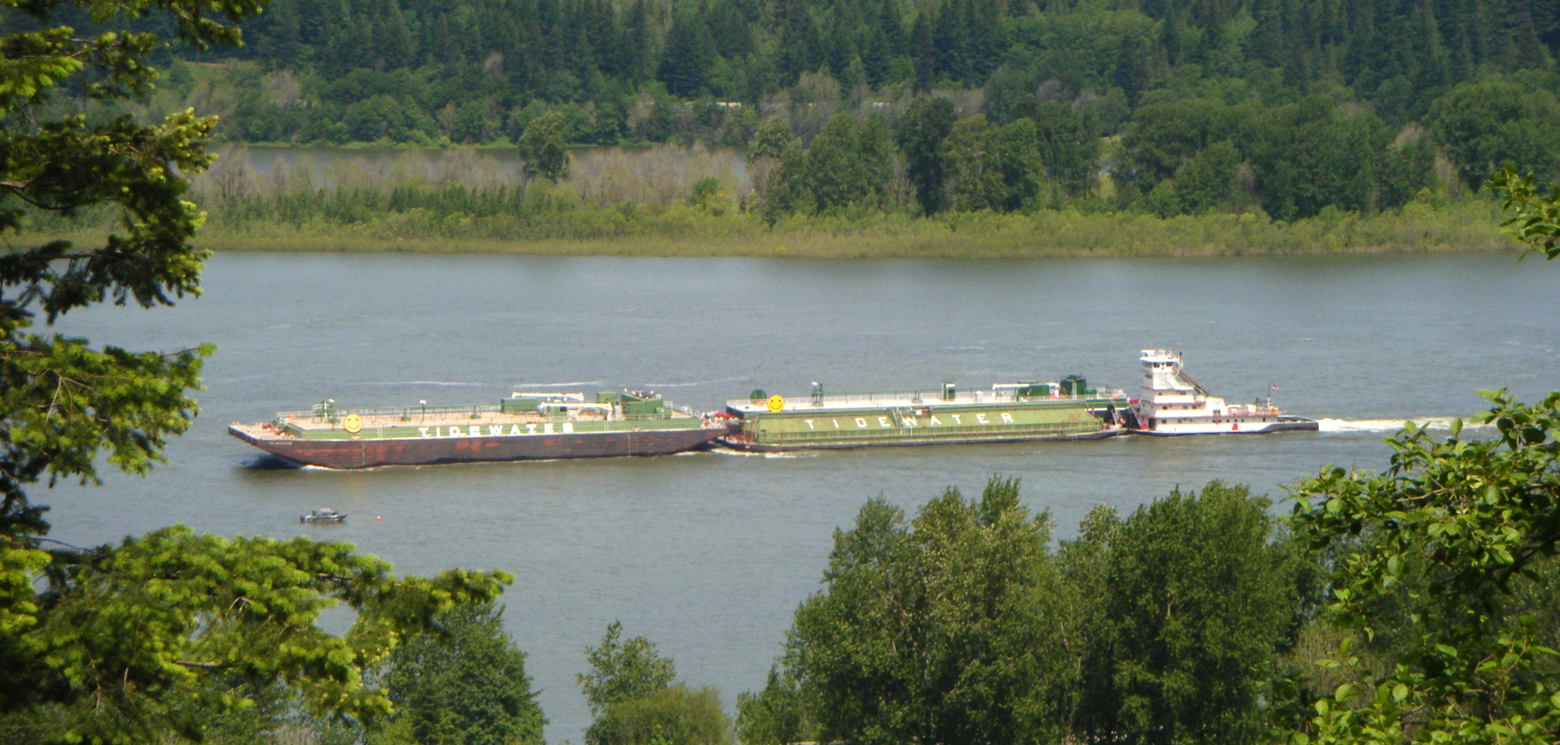 Tidewater, founded in 1932, has evolved from a barge line primarily handling wheat into a multi-modal transportation company serving the diverse transportation needs of the Pacific Northwest. Mt. Hood Push Headquartered in Vancouver, Washington, Tidewater's operating area extends from the inland Port of Lewiston, Idaho to the Pacific Coast Port of Astoria, Oregon, a distance of 465 miles. Along this river system,there are twenty-eight country grain elevators, seven export elevators and thirty-six individual port districts with varying transportation needs.